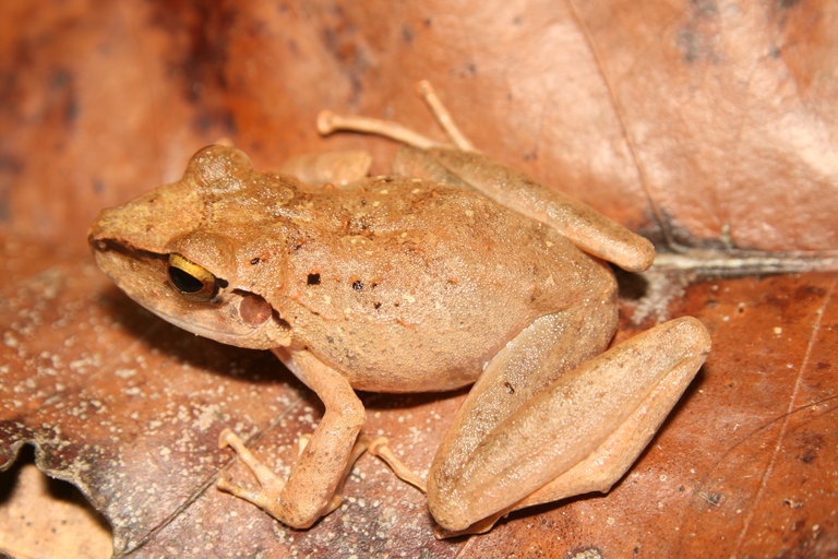 Pristimantis fenestratus